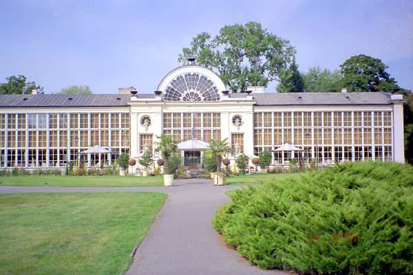 Warszawa Lazienki New Orangery building